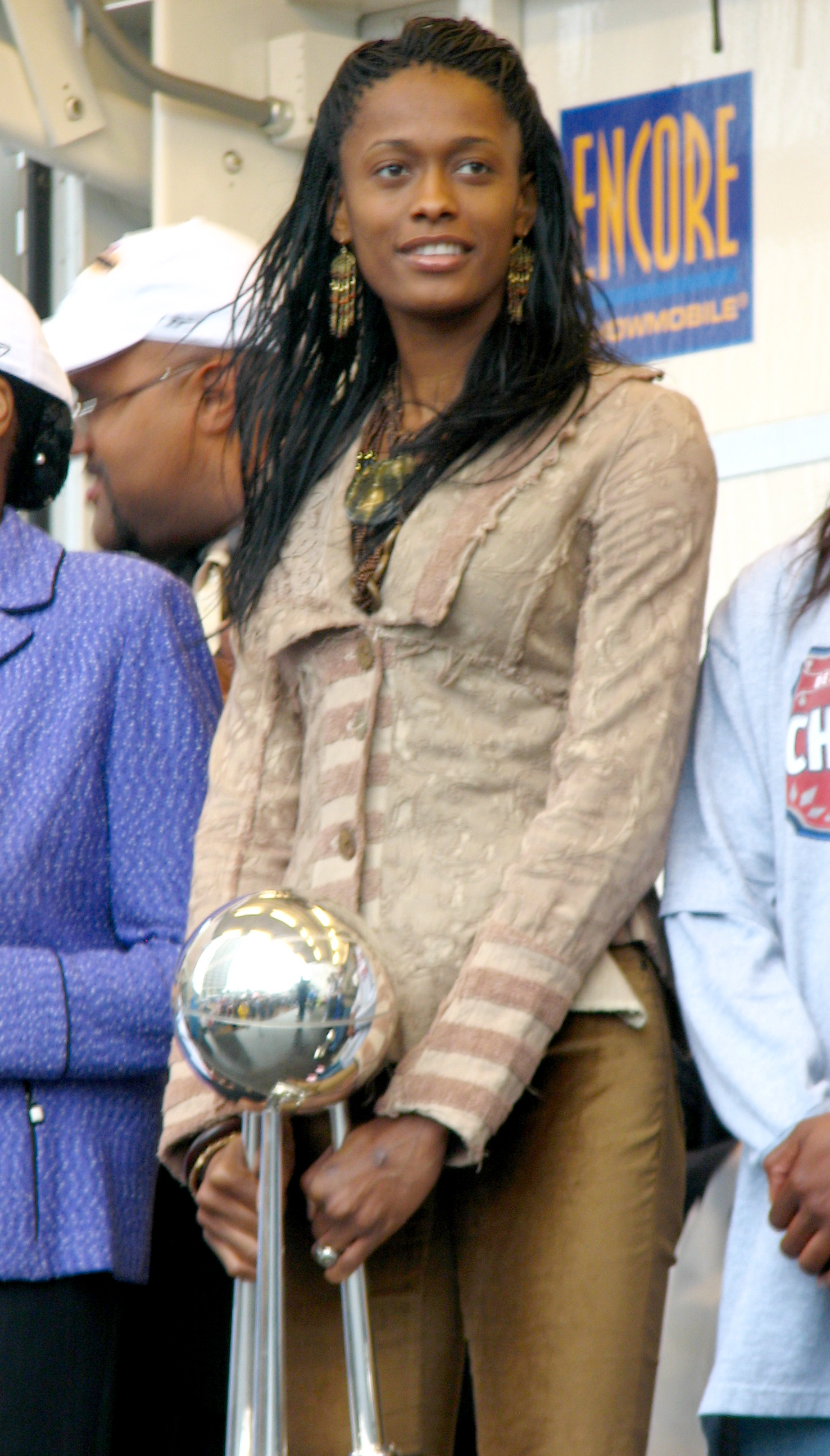 Swin Cash of the Detroit Shock